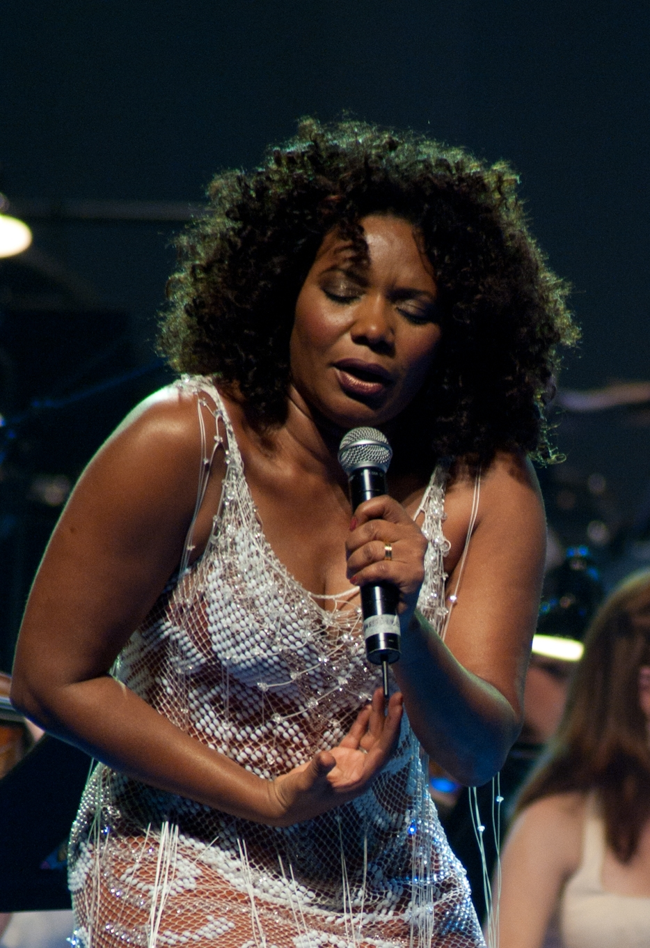 Brazilian vocalist Margareth Menezes in 2010, singing for the 22nd Fundação Cultural Palmares anniversary